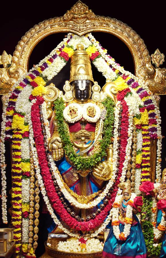 Lord Balaji at ISKCON Temple , Bangalore